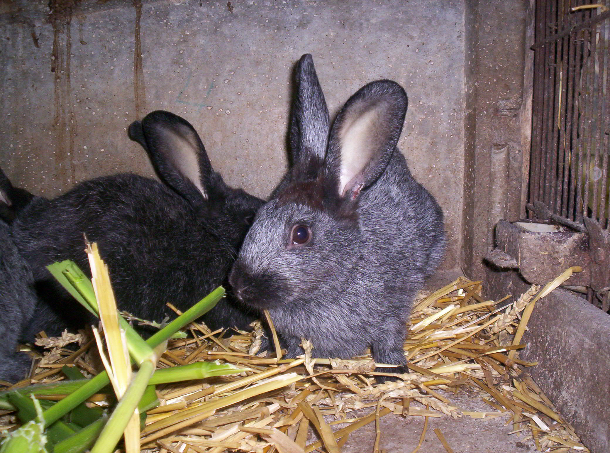 Young rabbit champagne d'argente